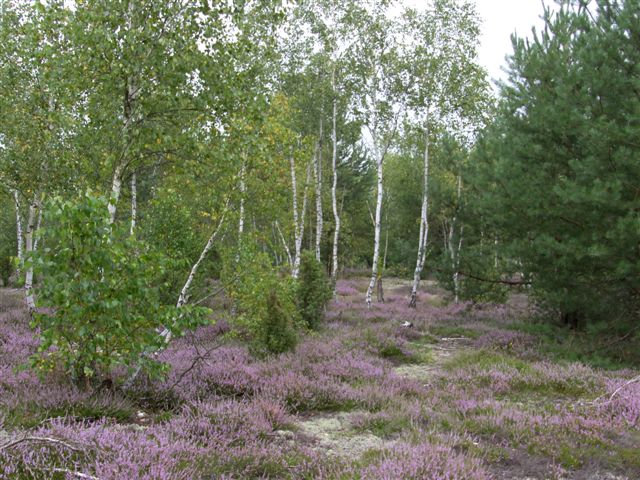 Myslakowice Kolonia surroundings